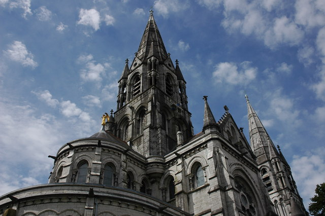 St. Finbarr's Cathedral, Cork The spire of St Finbarr's Cathedral in Cork was completed in 1878 to a design by William Burges.